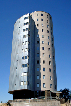 The water tower Norra Guldhedens Vattentorn, Göteborg, Sweden The Tower was built in 1935 and was rebuilt into a student housing in 2008